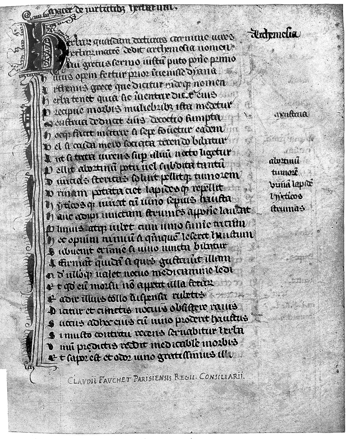 Folio 1 recto Archives & Manuscripts Keywords: Macer Floridius